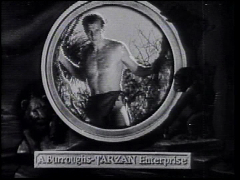 A screenshot of Herman Brix doing the Tarzan Yell from the opening credits of the American serial The New Adventures of Tarzan